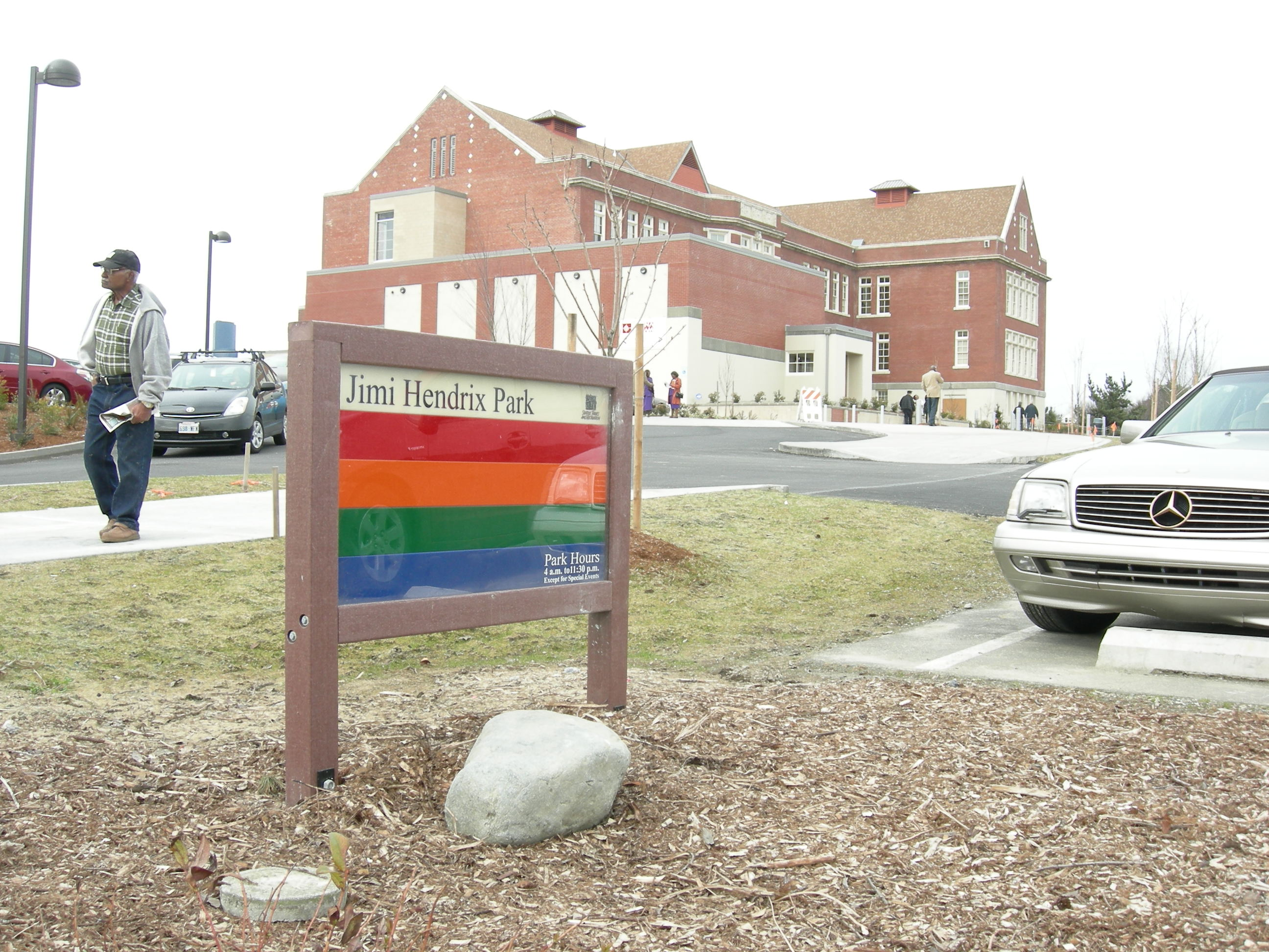 Northwest African American Museum (the former Colman School), Jimi Hendrix Park, Seattle, Washington.